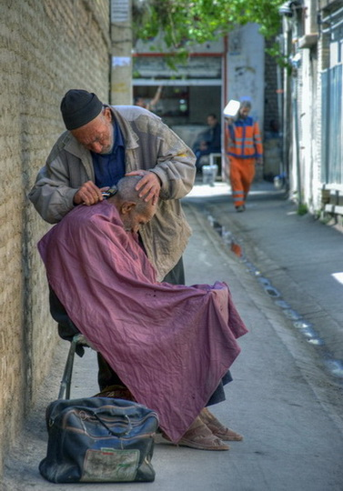 A street barber in Shiraz